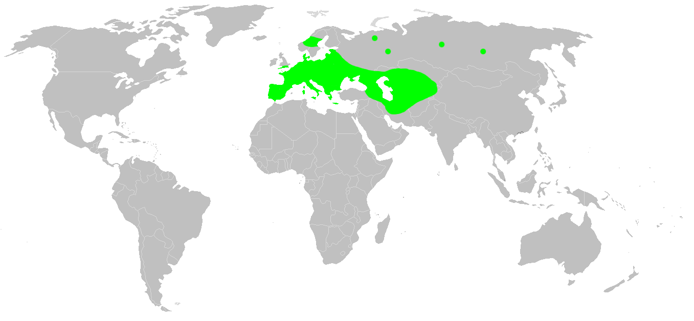 Known world distribution of Ballus chalybeius (Salticidae), after data from British Arachnological Society, 2006